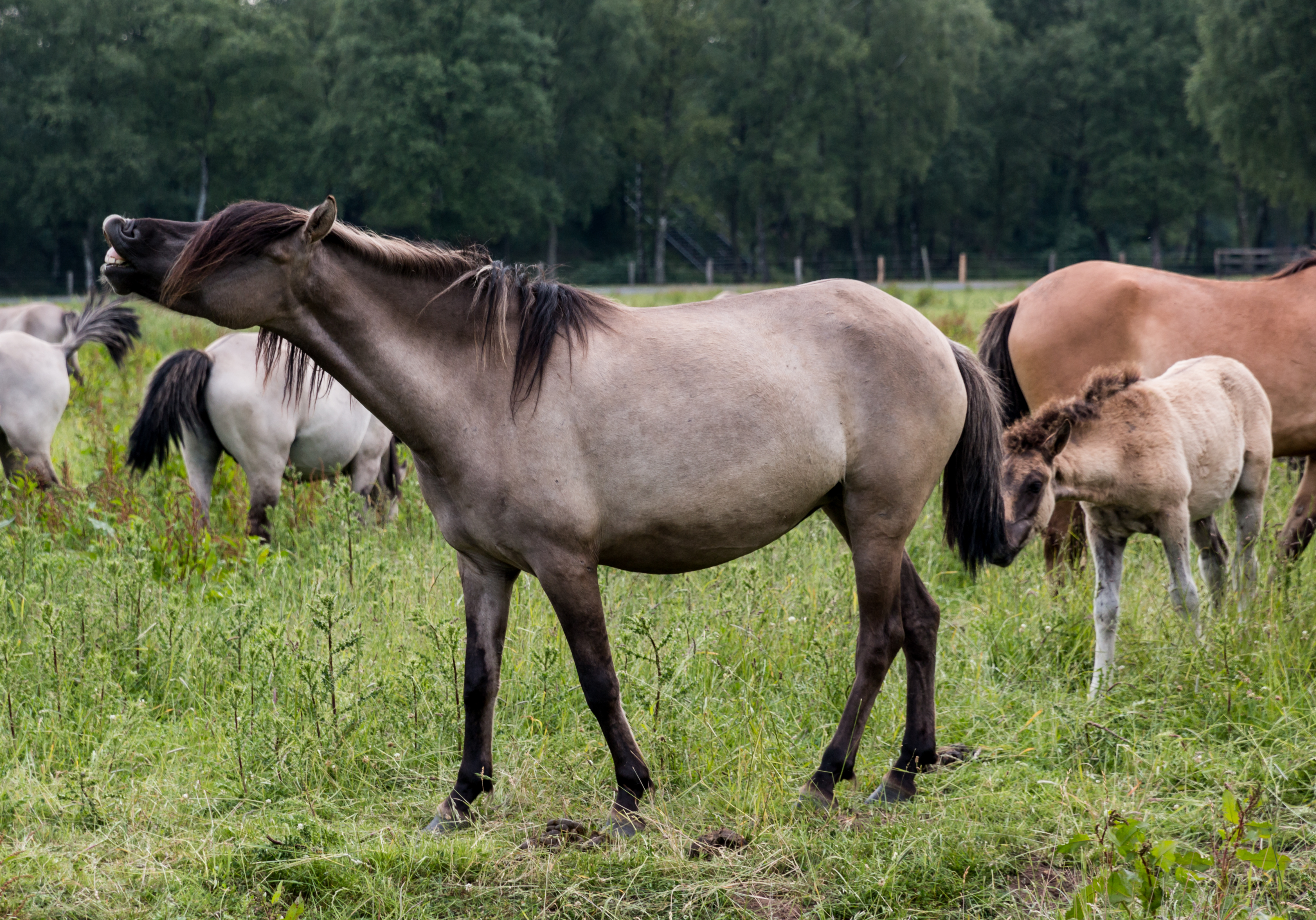 Dülmener wild horses in Merfelder Bruch, Dülmen, North Rhine-Westphalia, Germany